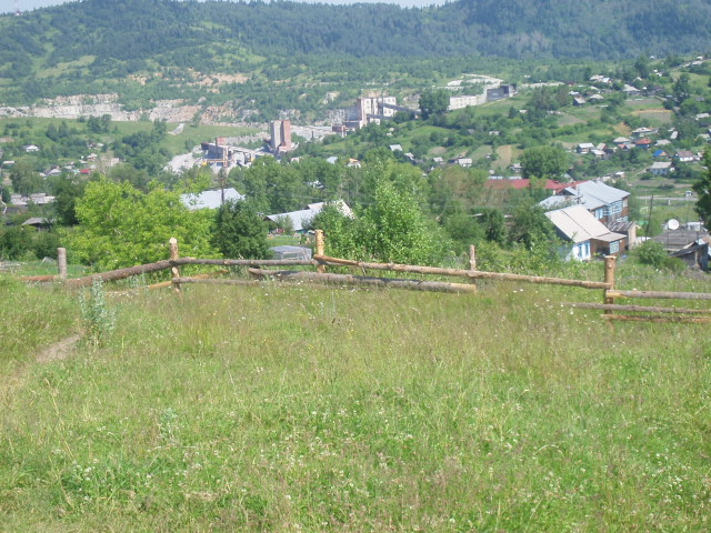 Темиртау